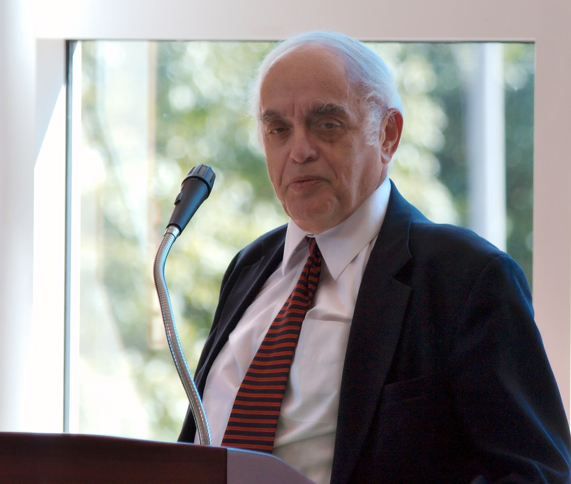 Robert Novak talking about his memoir book "Prince of Darkness, 50 years reporting in Washington" at the Illini Union Bookstore in Champaign, Illinois